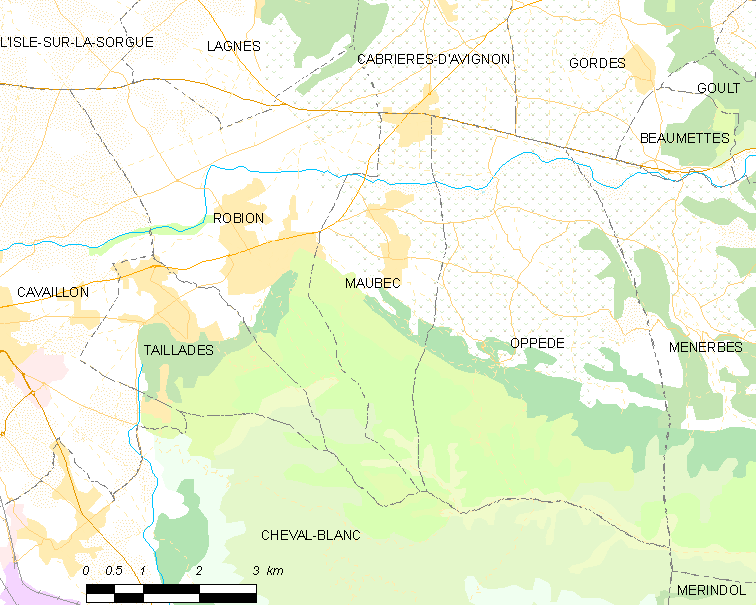 Map of French municipality Maubec